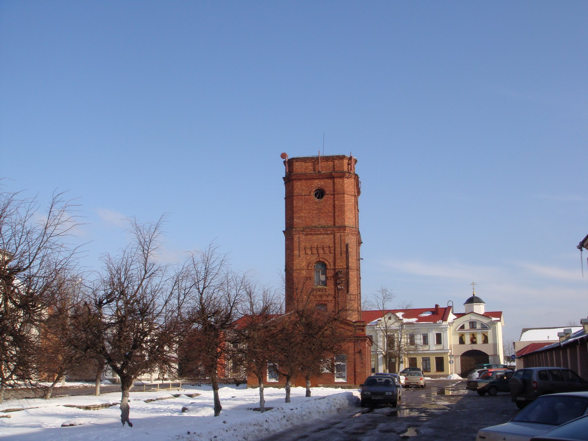 Tower in Pechory, Pskov Oblast, Russia.